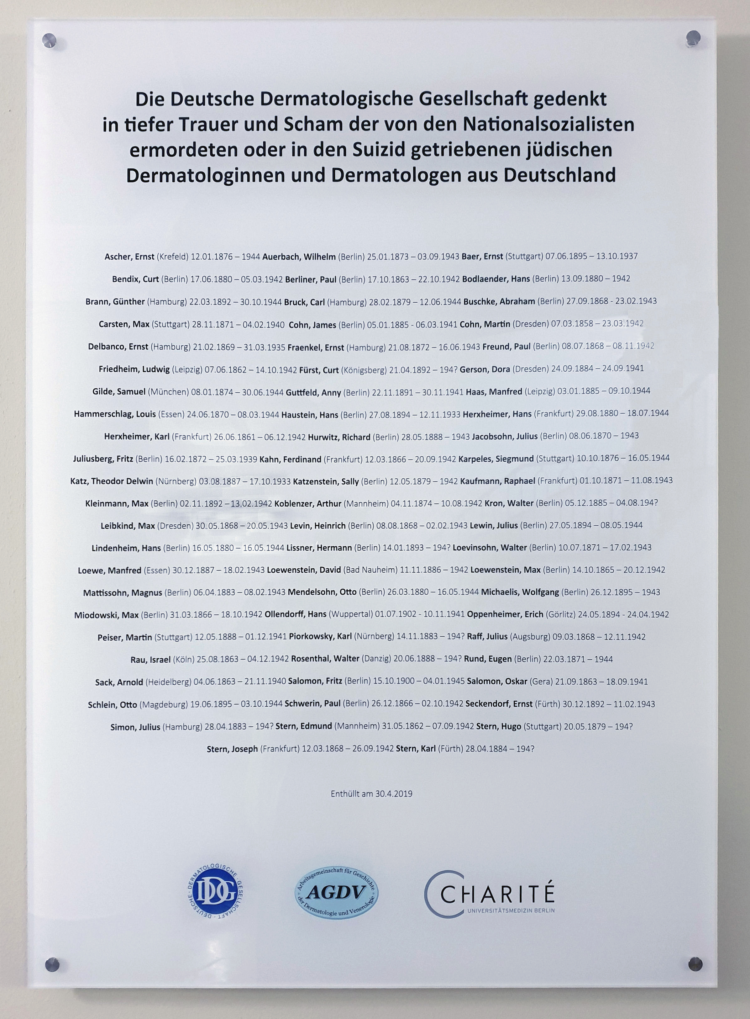 Memorial plaque, jüdische Dermatologen, Luisenstraße 2, Berlin-Mitte, Deutschland